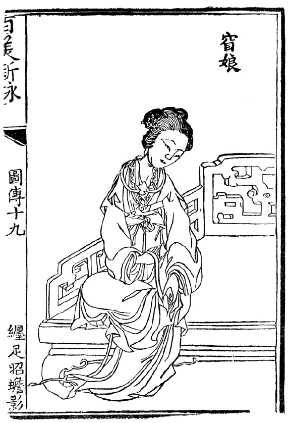 Illustration showing Yaoniang (窅娘) binding her own feet, Qing Dynasty woodblock print from Hundred Poems of Beautiful Women (Bai Mei Xin Yong Tu Zhuan 百美新詠圖傳)